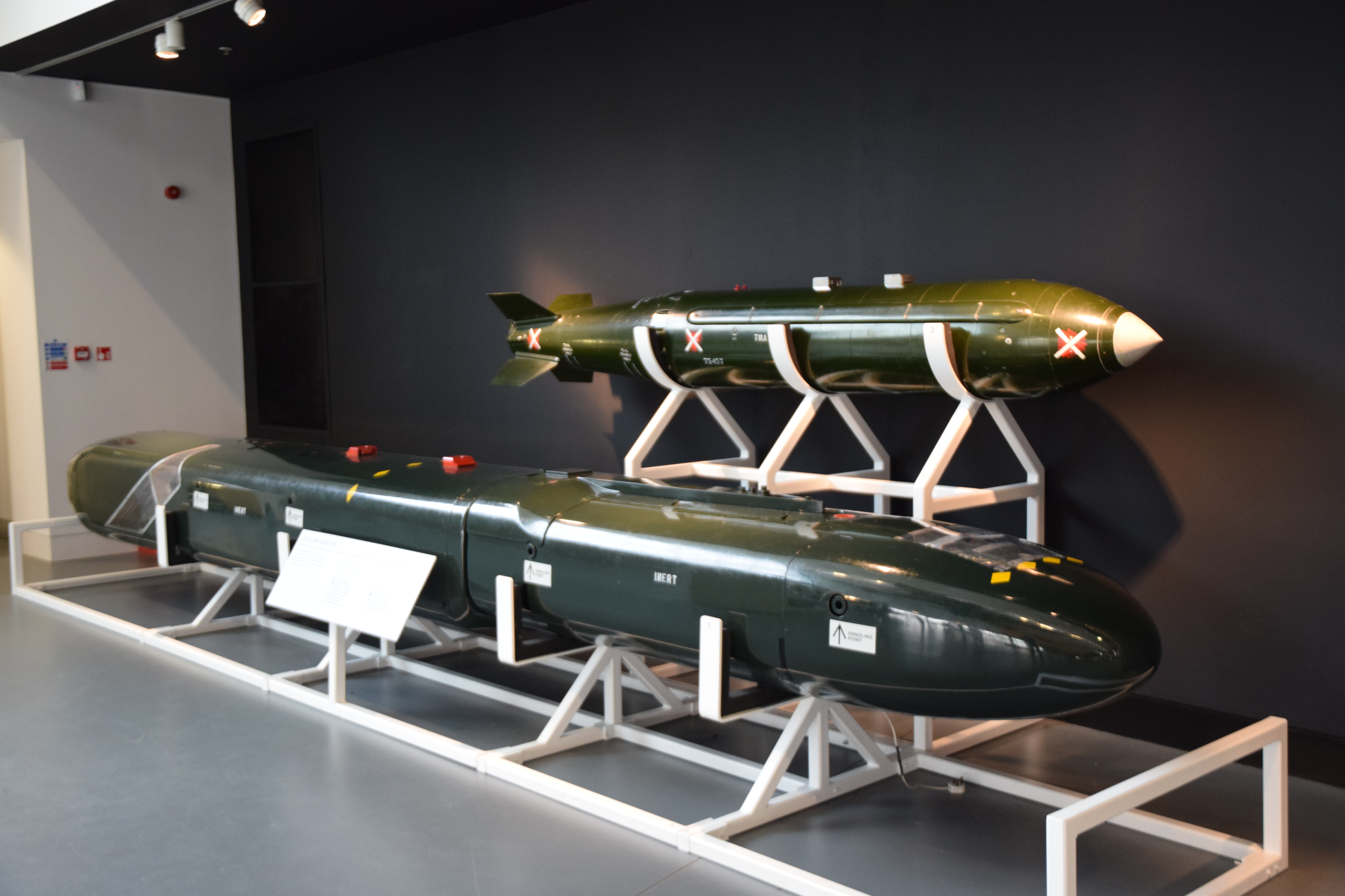 WE177C tactical nuclear bomb (top) and Hunting JP233 airfield denial cluster bomb (bottom) in Hanger 6 at the RAF Museum, Hendon, 4 December 2018.